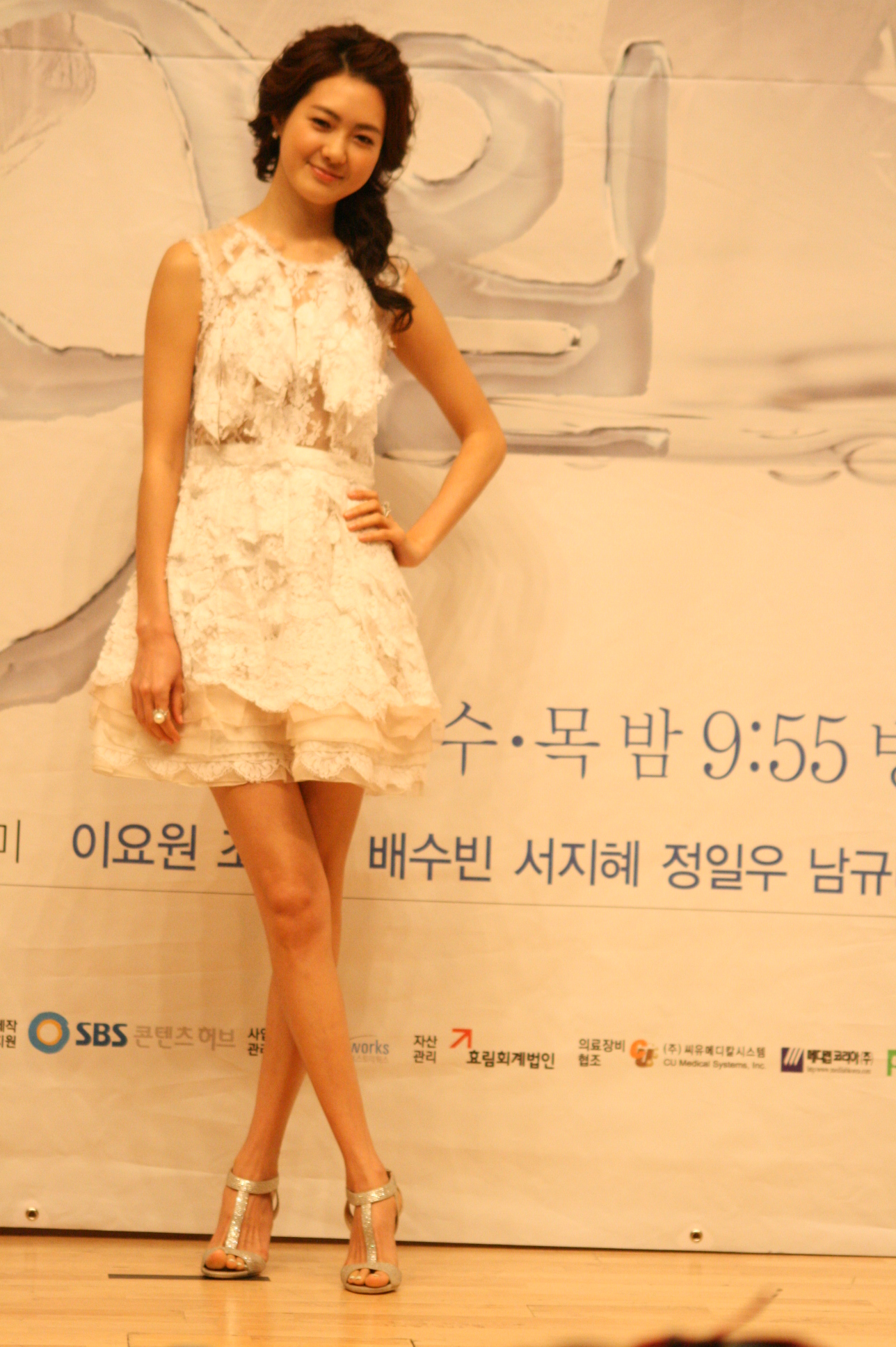 Lee Yo-won at the premiere of "49 Days"